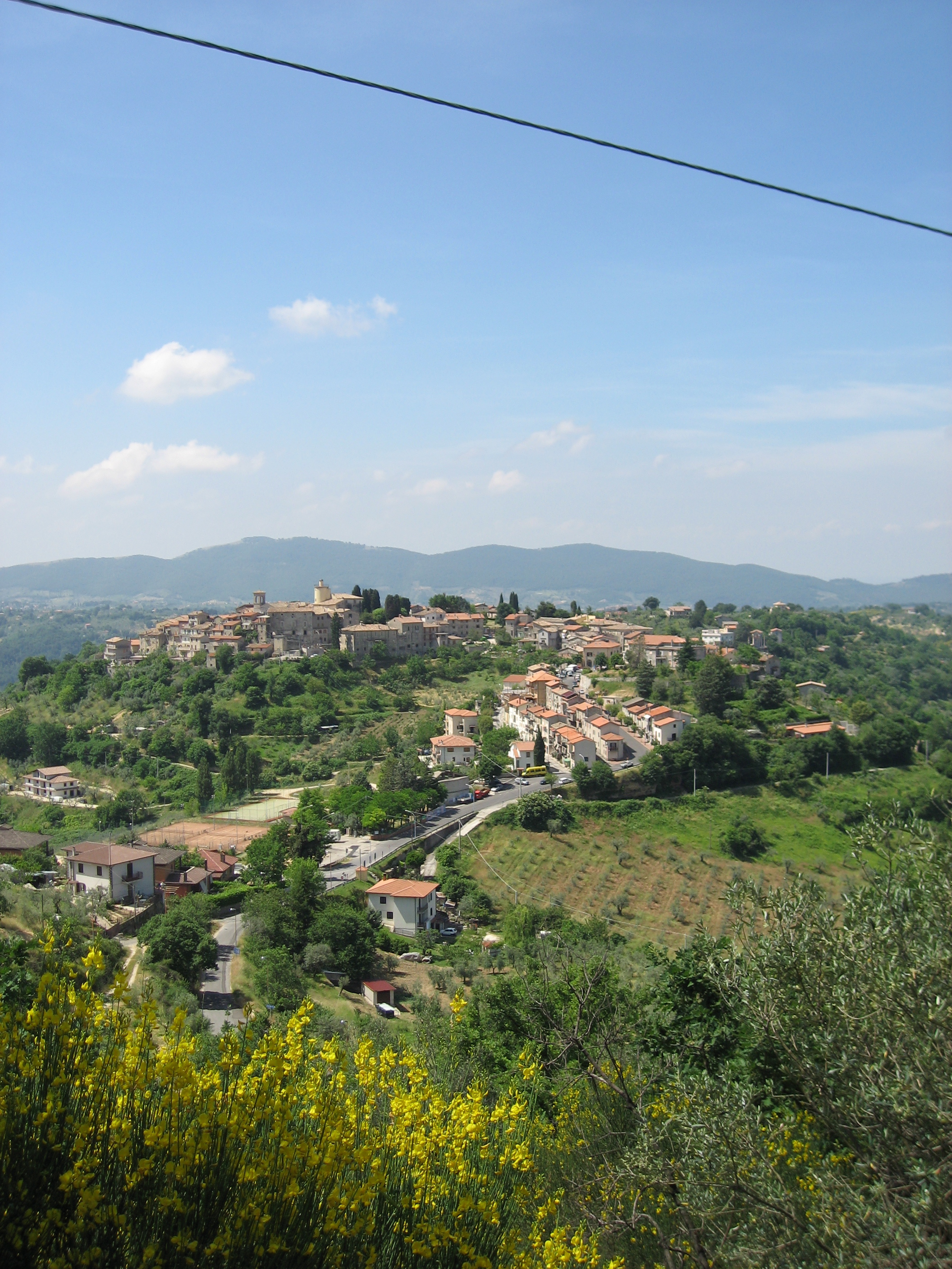 Photo of the village of Casaprota, Rieti Italy